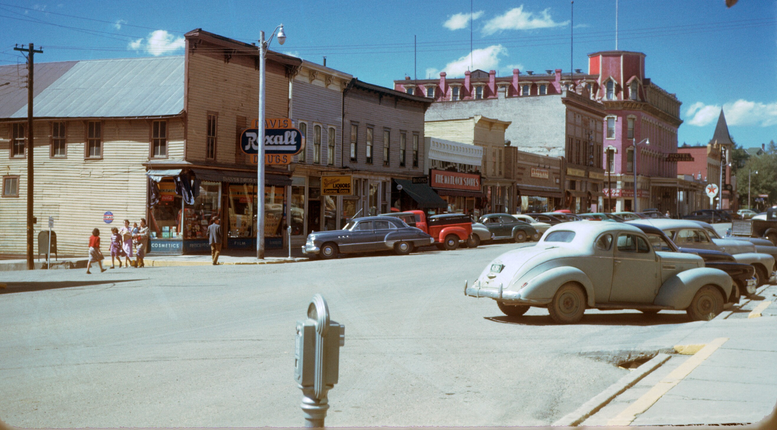 Leadville, CO Hotel Vendome, Kodachrome photgraph by Chalmers butterfield